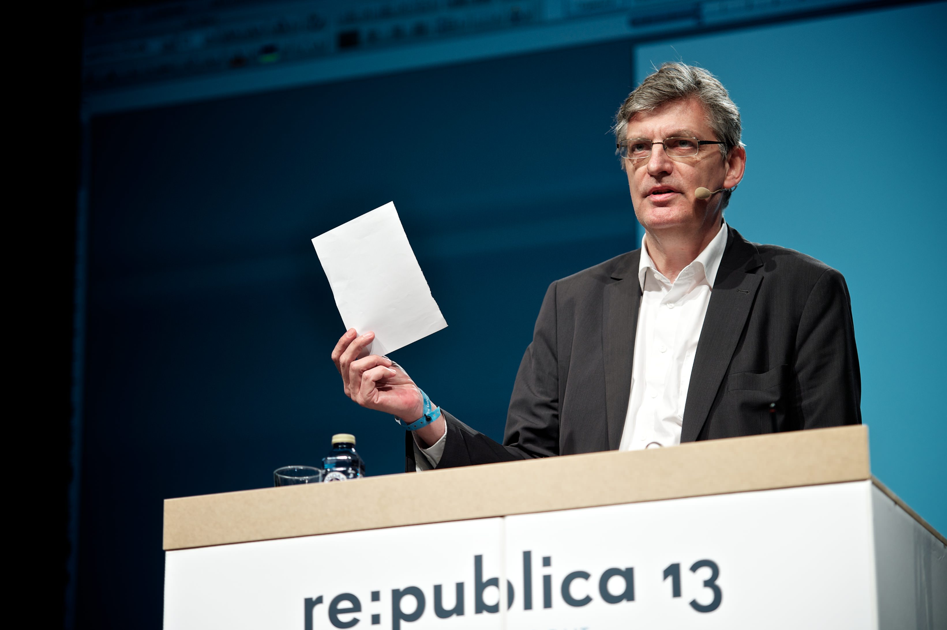 (cc) Gregor Fischer / re:publica 2013